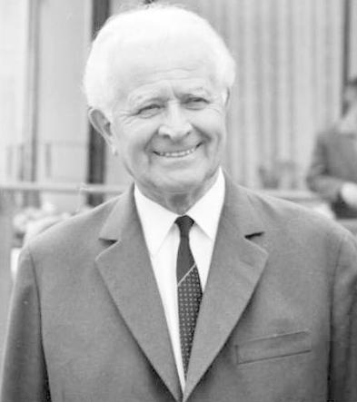 Portrait of Ludvík Svoboda (President of Czechoslovakia, 1968 – 1975)